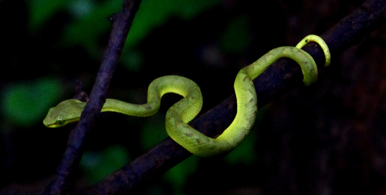 This species is endemic to the Western Ghats, they are extremely shy. Adults can grow pretty big, they hardly bite.